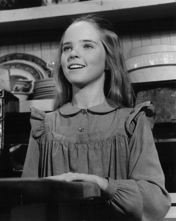 Publicity photograph of Melissa Sue Anderson as fictional depiction of Mary Ingalls of the television series Little House on the Prairie.